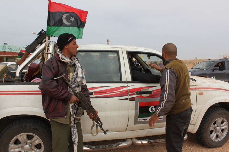 At the main checkpoint near the strategic oil town of Brega, men with what appeared to be better equipment and gear than their untrained comrades began to assemble. They wore emblems indicating their position as engineers or paratroopers and said they were defected "special forces" from Benghazi who were awaiting orders. Despite their more impressive appearance, they still seemed to lack the kind of discipline one might see in Western militaries, or perhaps even Gaddafi's own forces.